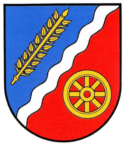 Coat of Arms of Süpplingen